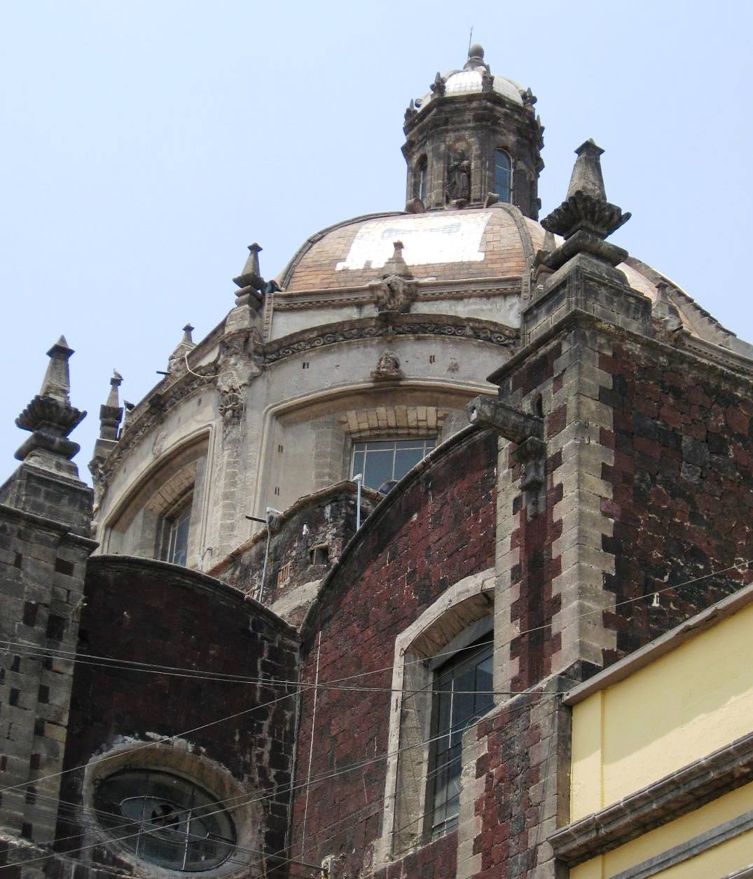 Dome of the La Santisima Church in Mexico City